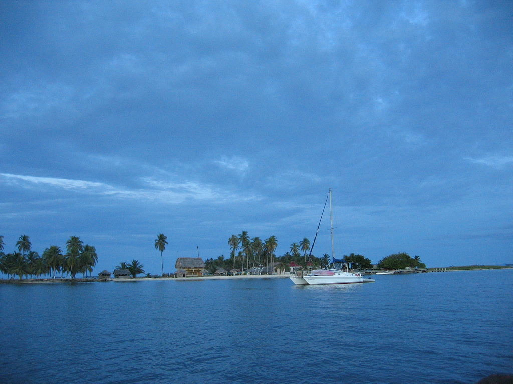 Approaching the island of Porvenir